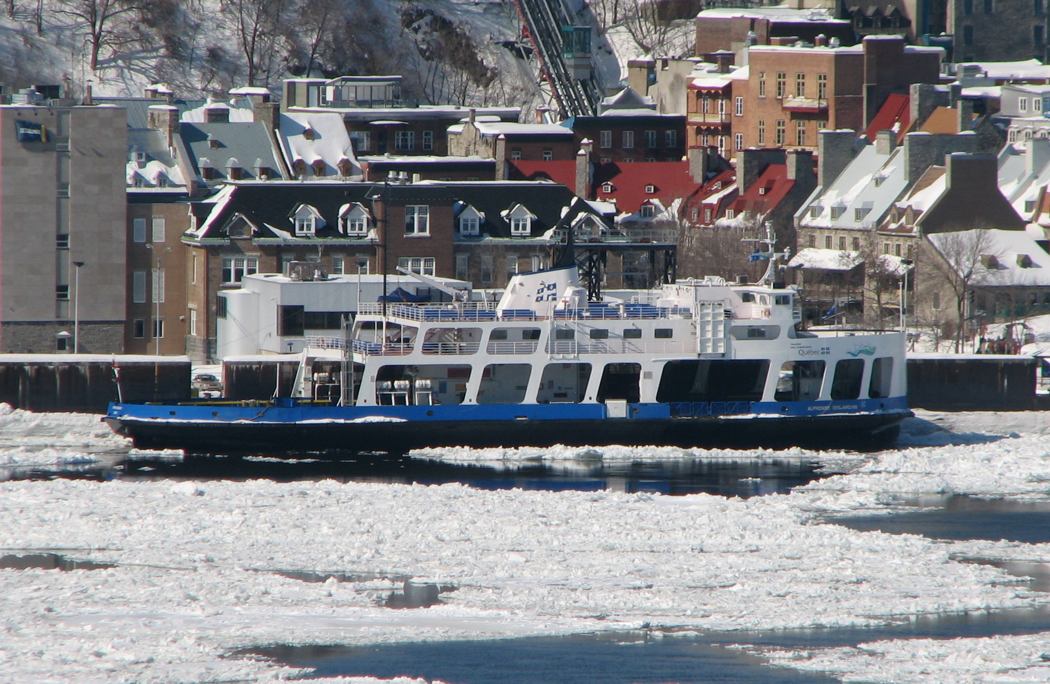 Ferry Alphonse Desjardins on Saint Lawrence River, Quebec City, Canada